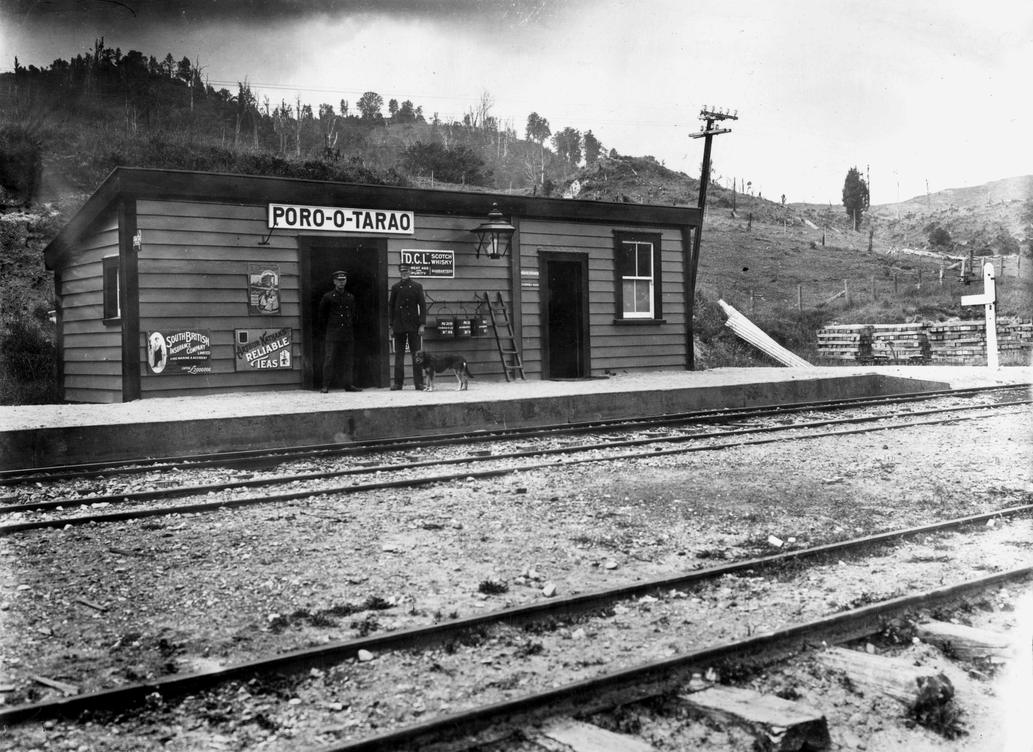 Porootarao railway station, circa 1910. Two railway guards and a dog stand on the platform. Advertisements for South British Insurance, Arthur Nathan's reliable teas, and DCL scotch whisky, are visible. Photograph taken by Albert Percy Godber.